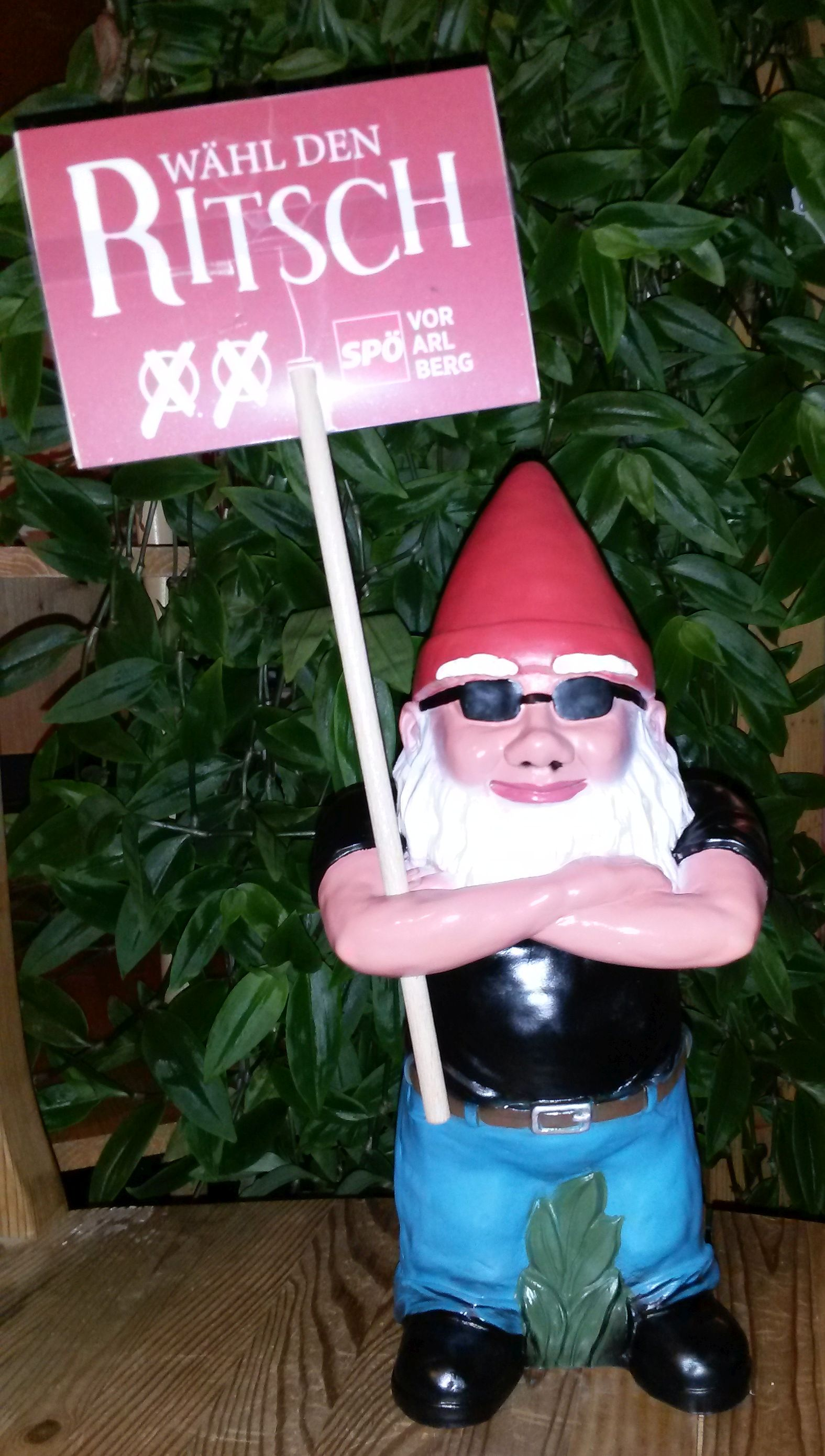 Canvassing-Garden gnomes of the Social Democratic Party of Austria, Vorarlberg 2014 (Michael Ritsch).